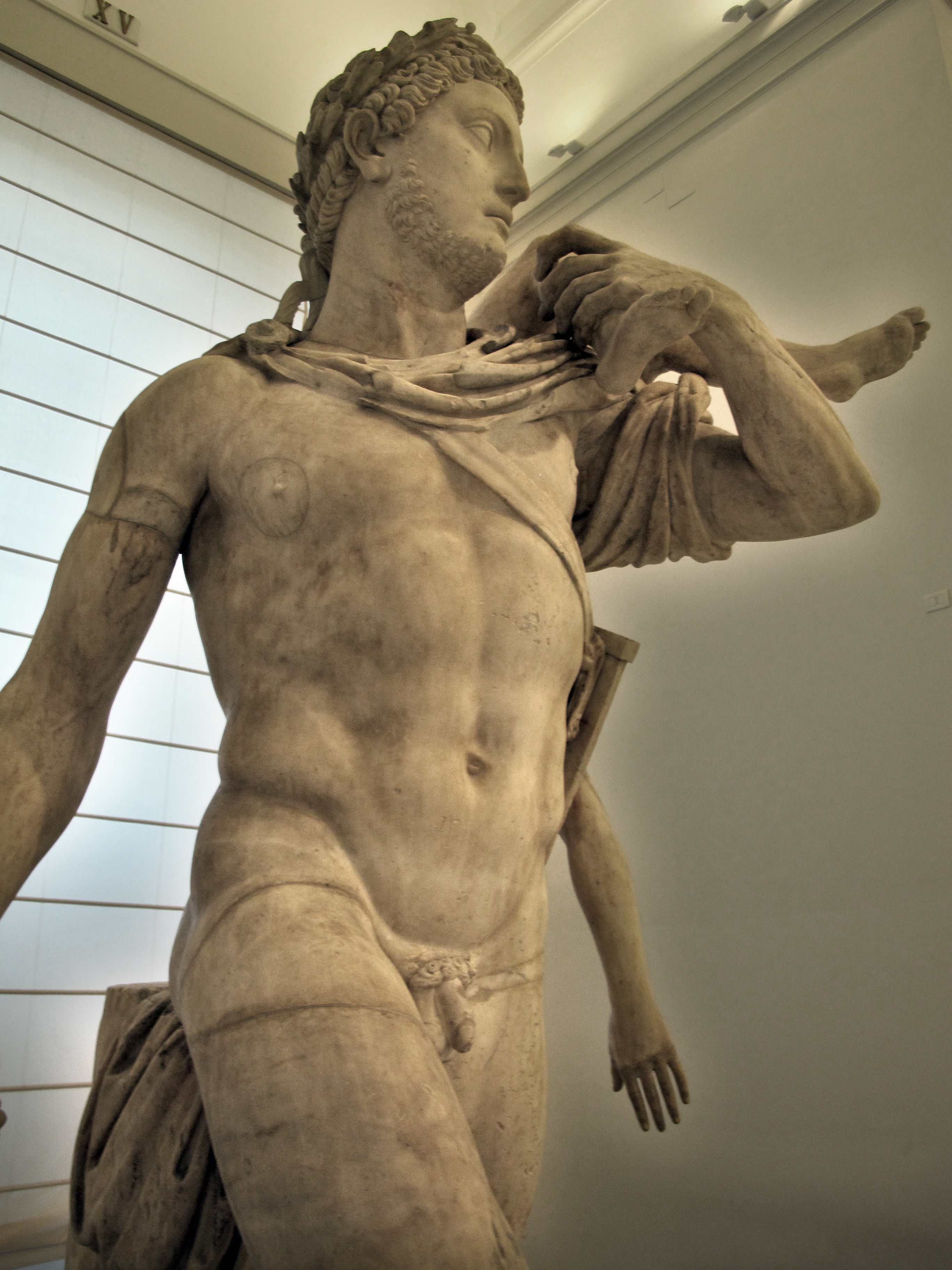 Ancient Roman statues from the Farnese Collection, now in Naples